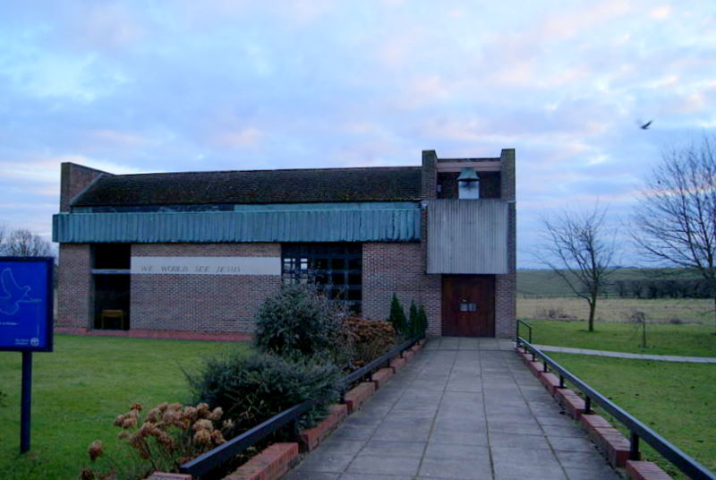 St Philip's Church, Main Street, Scholes, Leeds. Taken on the afternoon of Sunday the 14th of February 2010.